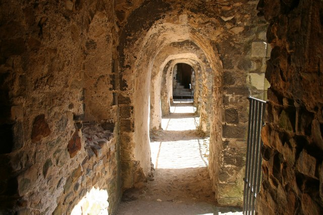 Mural Passage Also known as the Wall Passage, cut into the thickness of the keep wall at Castle Rising in the 16th century.